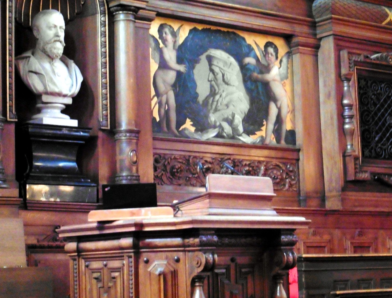 teacher's desk in the Aula of the old university Heidelberg